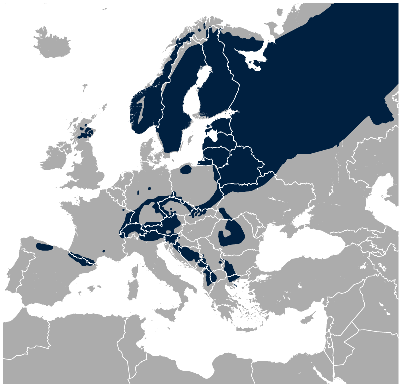 Geographical distribution of the Western Capercaillie Tetrao urogallus in Europe. The map was created using the Generic Mapping Tools, GMT, version 5.1.2.